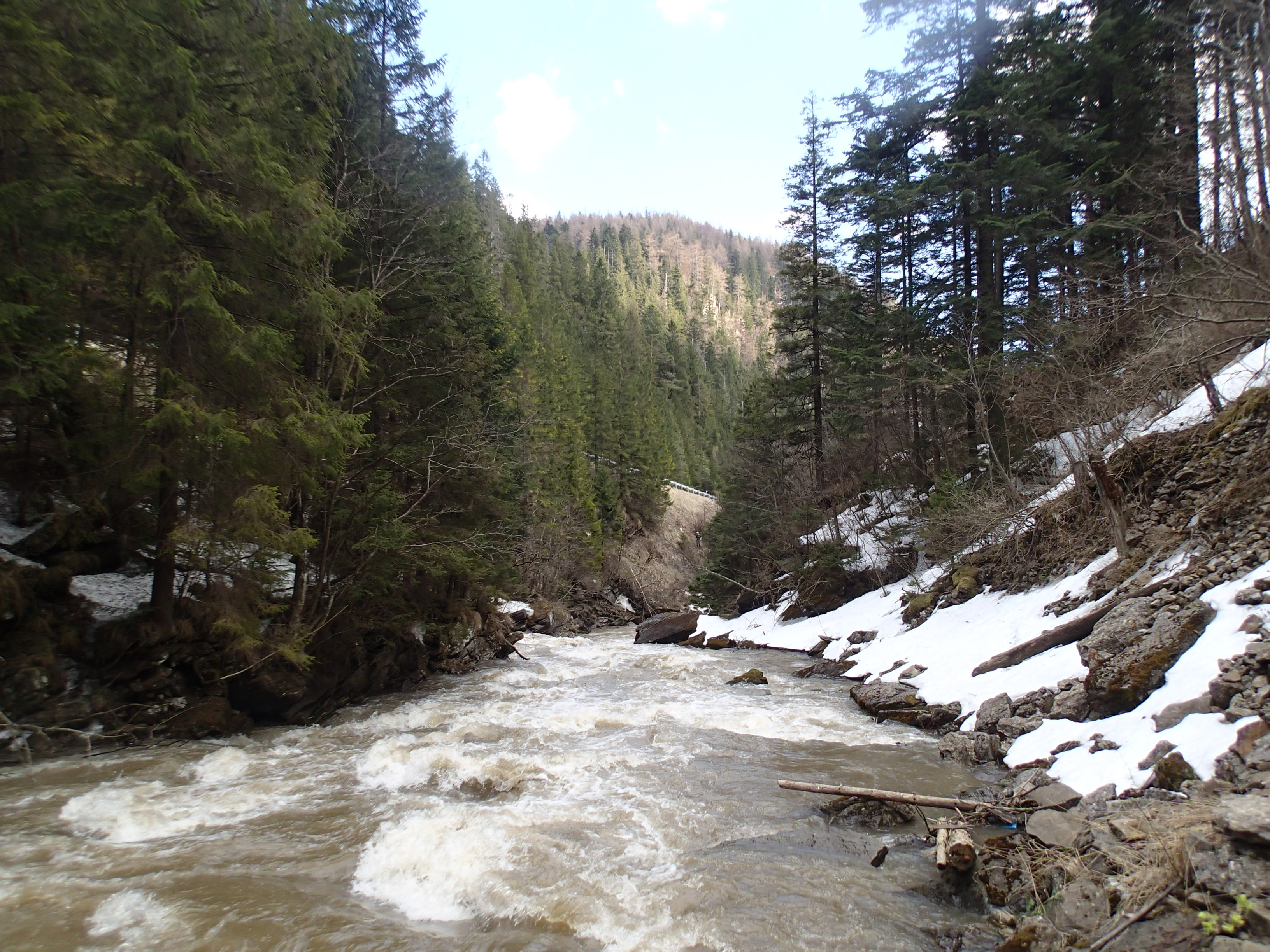 Biela creek near Zdiar